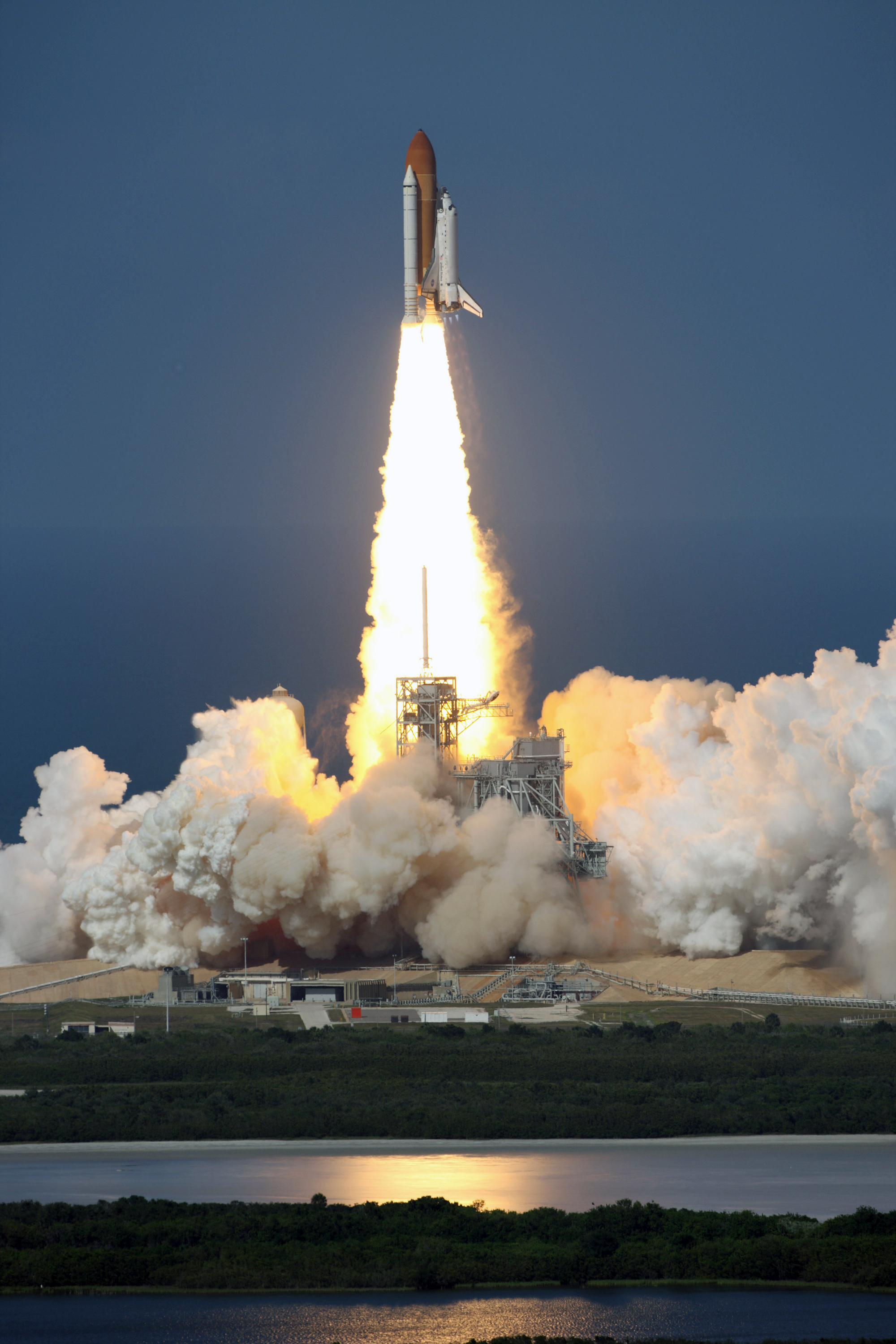 Space Shuttle Discovery launches on mission STS-124 to the International Space Station, from Kennedy Space Center, 31 May en:2008